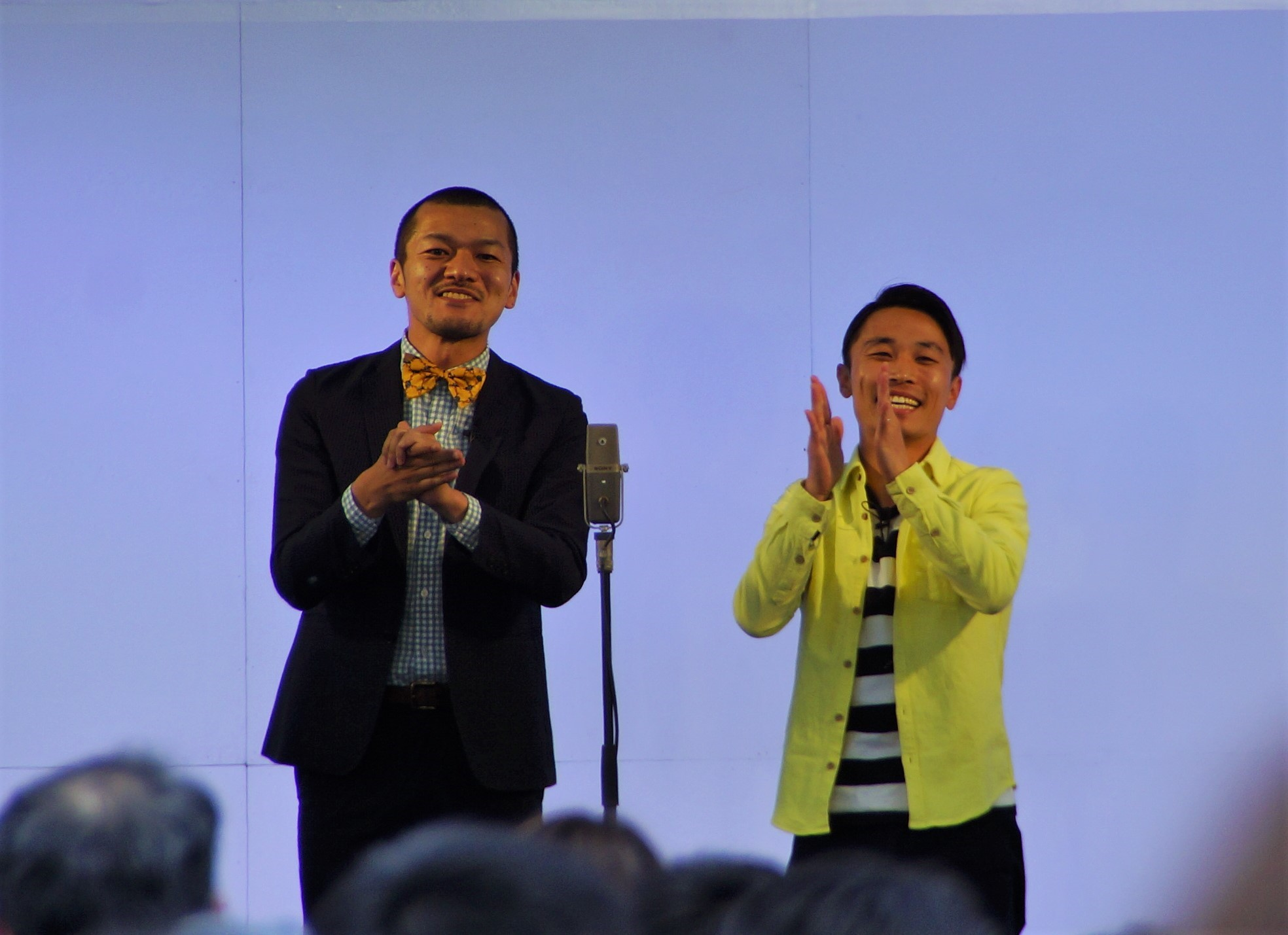 Japanese comedy duo Kaminari (Manabu Takeuchi on left, Takumi Ishida on right) performing on stage at the Hitachi Mito Factory open day in Hitachinaka, Ibaraki Prefecture, Japan